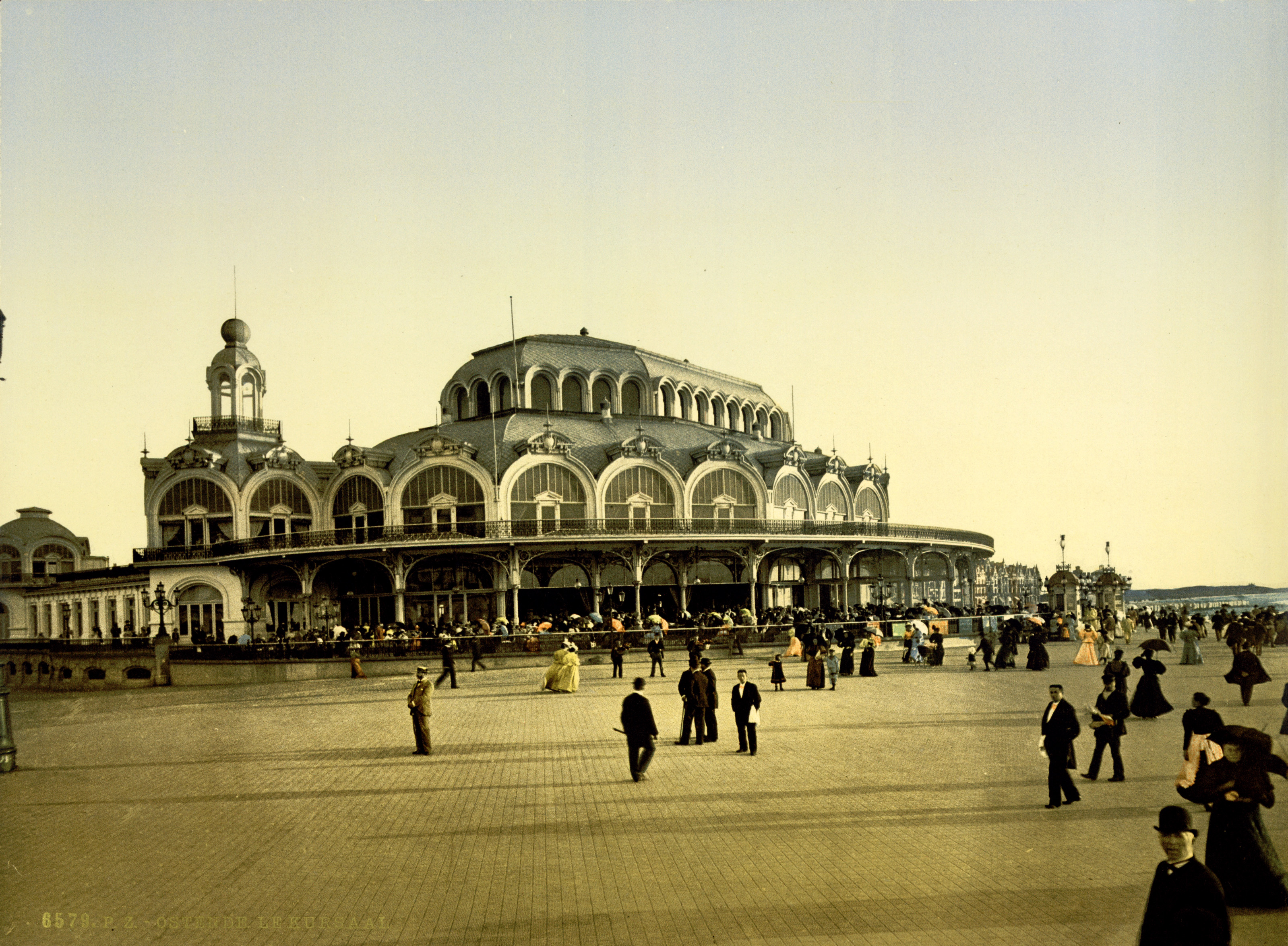 The Kursaal (ca. 1895), Oostende, Belgium From the Detroit Publishing Co. Collection at the U.S. Library of Congress. More postcards from Belgium - More photochrom postcards [PD] This picture is in the public domain.